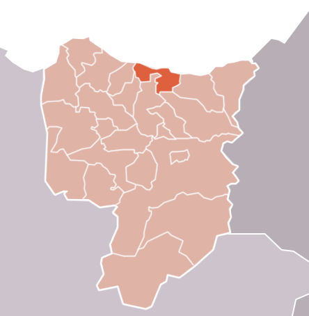 Tazaghine